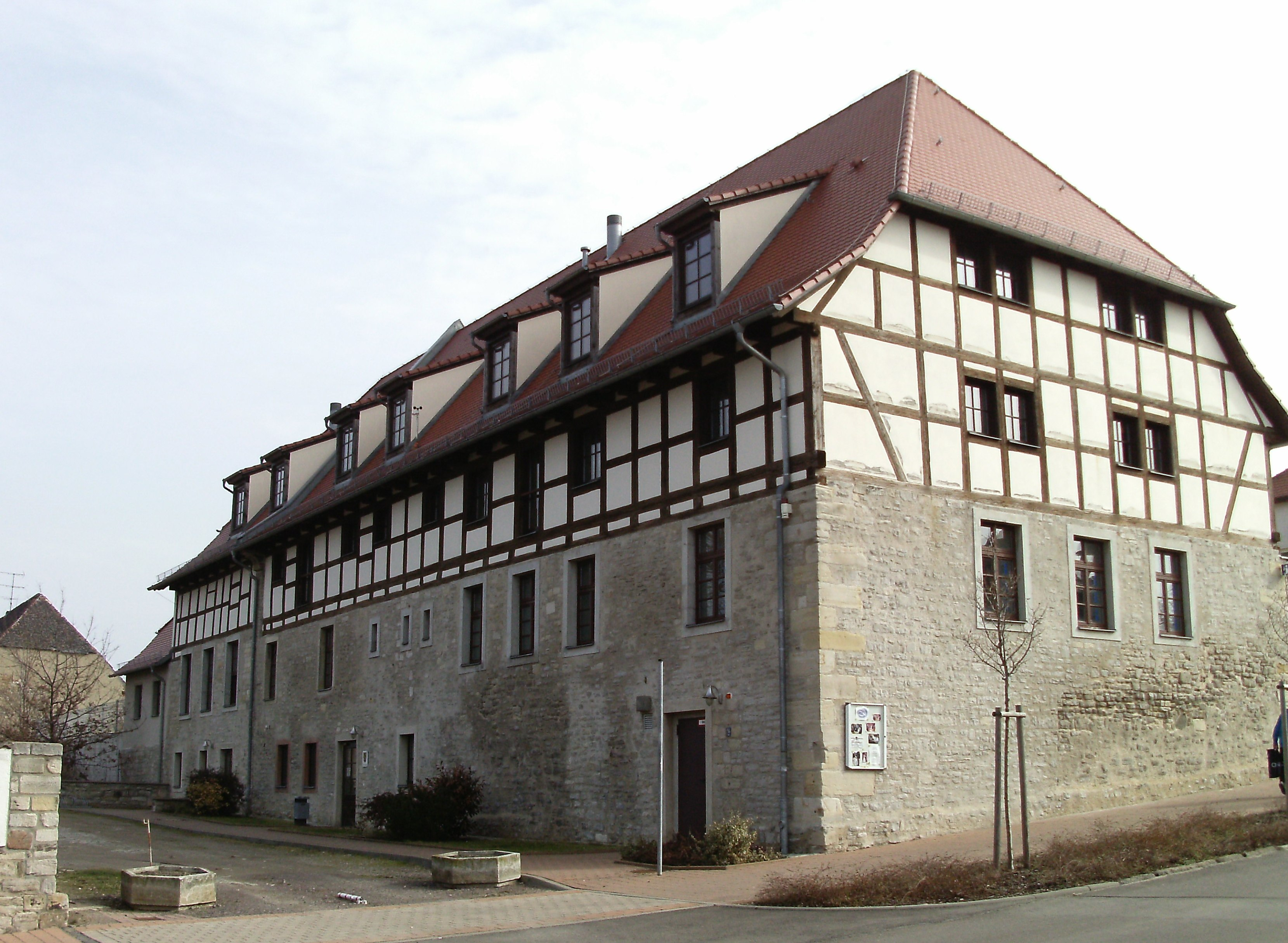 Former salt office in Bad Dürrenberg (district of Saalekreis, Saxony-Anhalt)